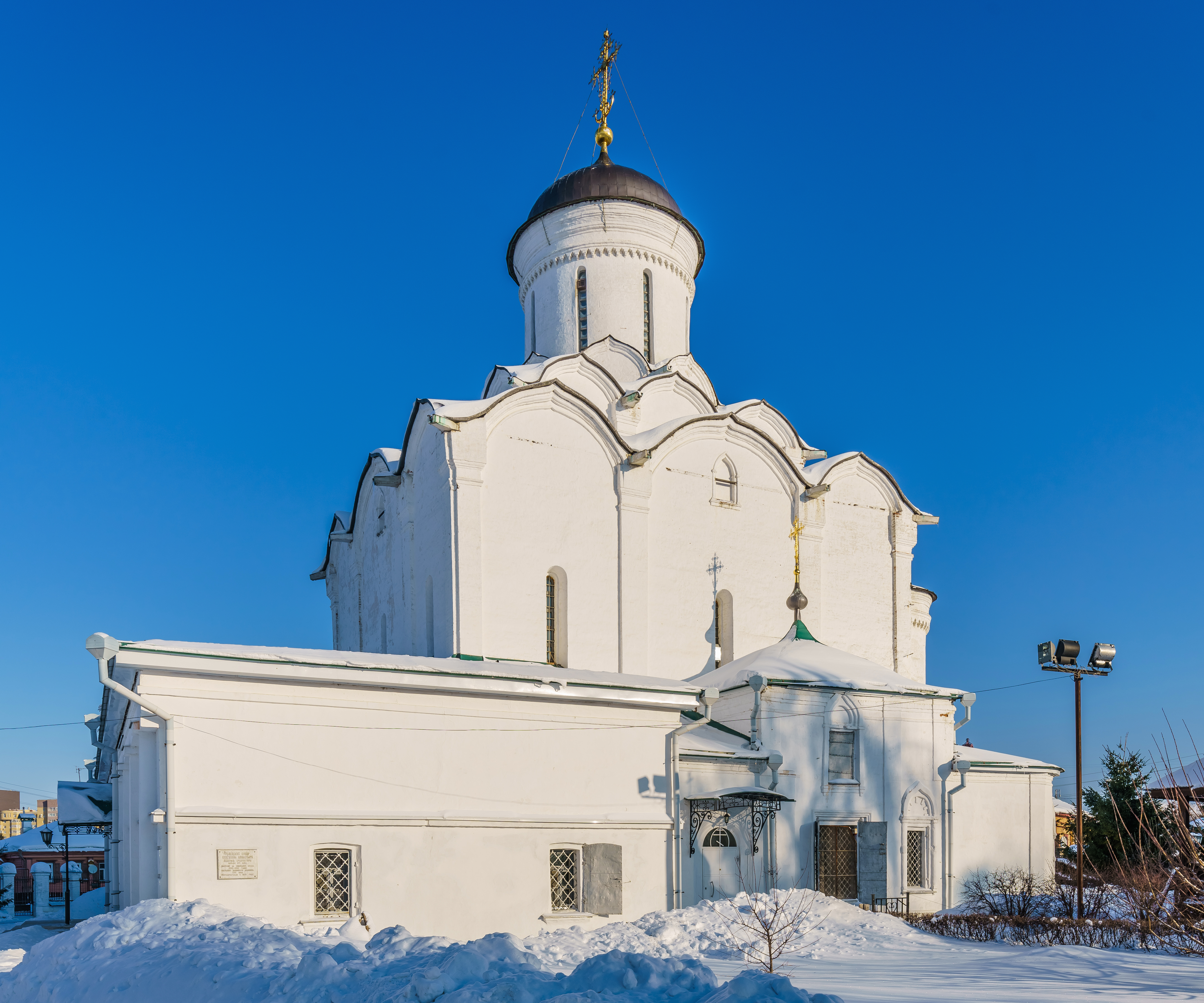 Knyaginin Monastery in Vladimir, Russia